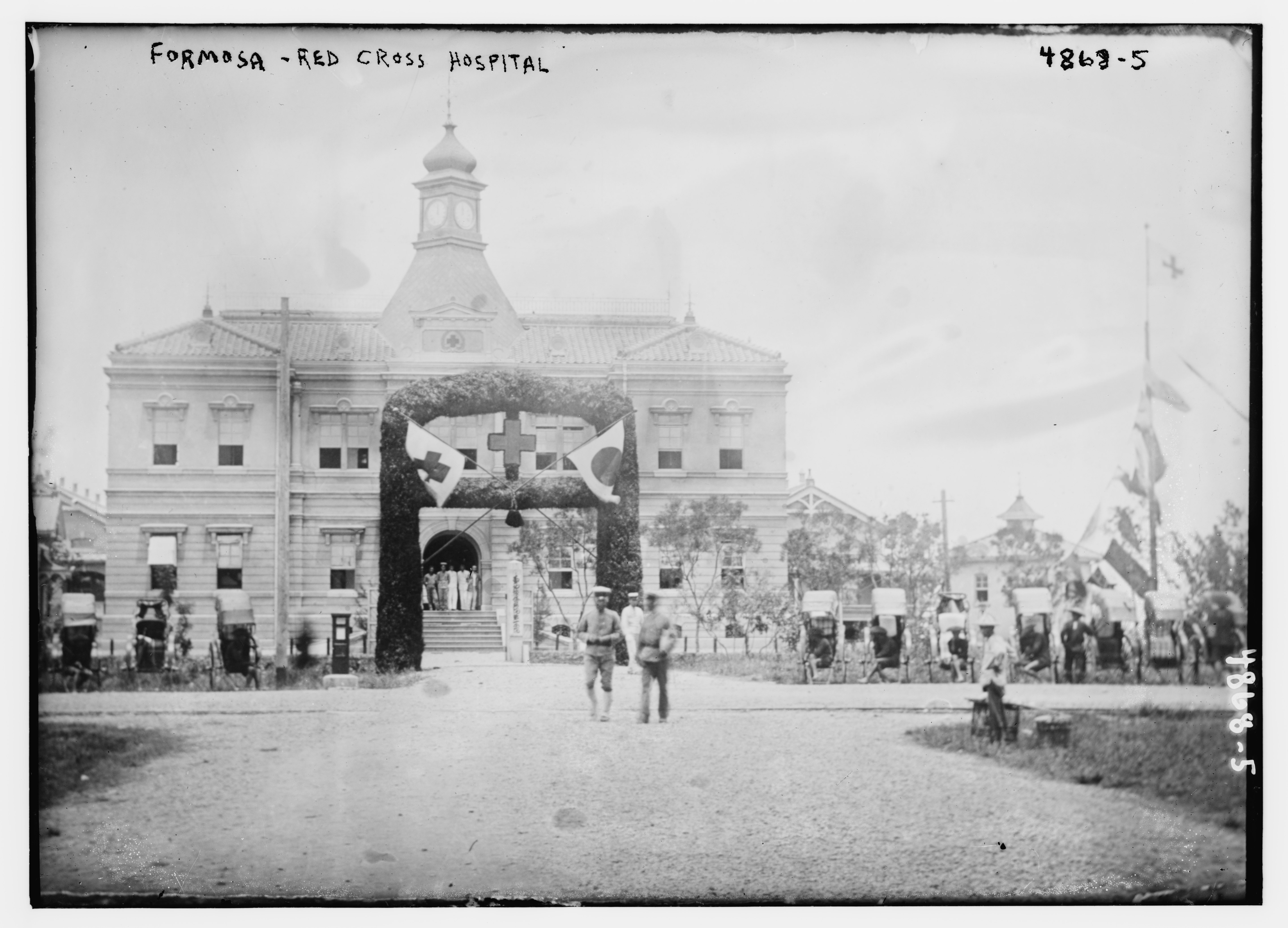 Title: Formosa, Red Cross Hospital Abstract/medium: 1 negative : glass ; 5 x 7 in. or smaller.